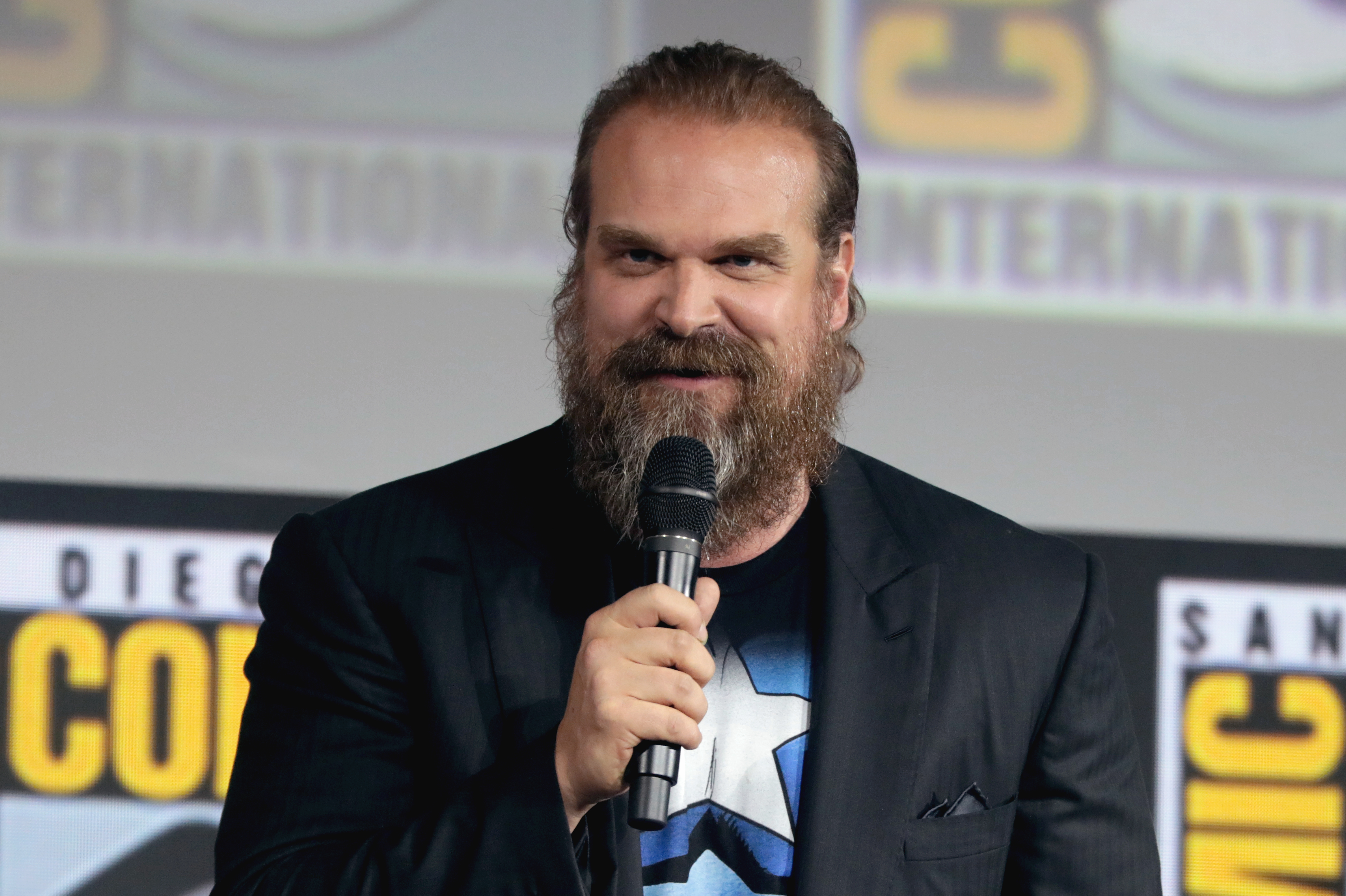 David Harbour speaking at the 2019 San Diego Comic Con International, for "Black Widow", at the San Diego Convention Center in San Diego, California.